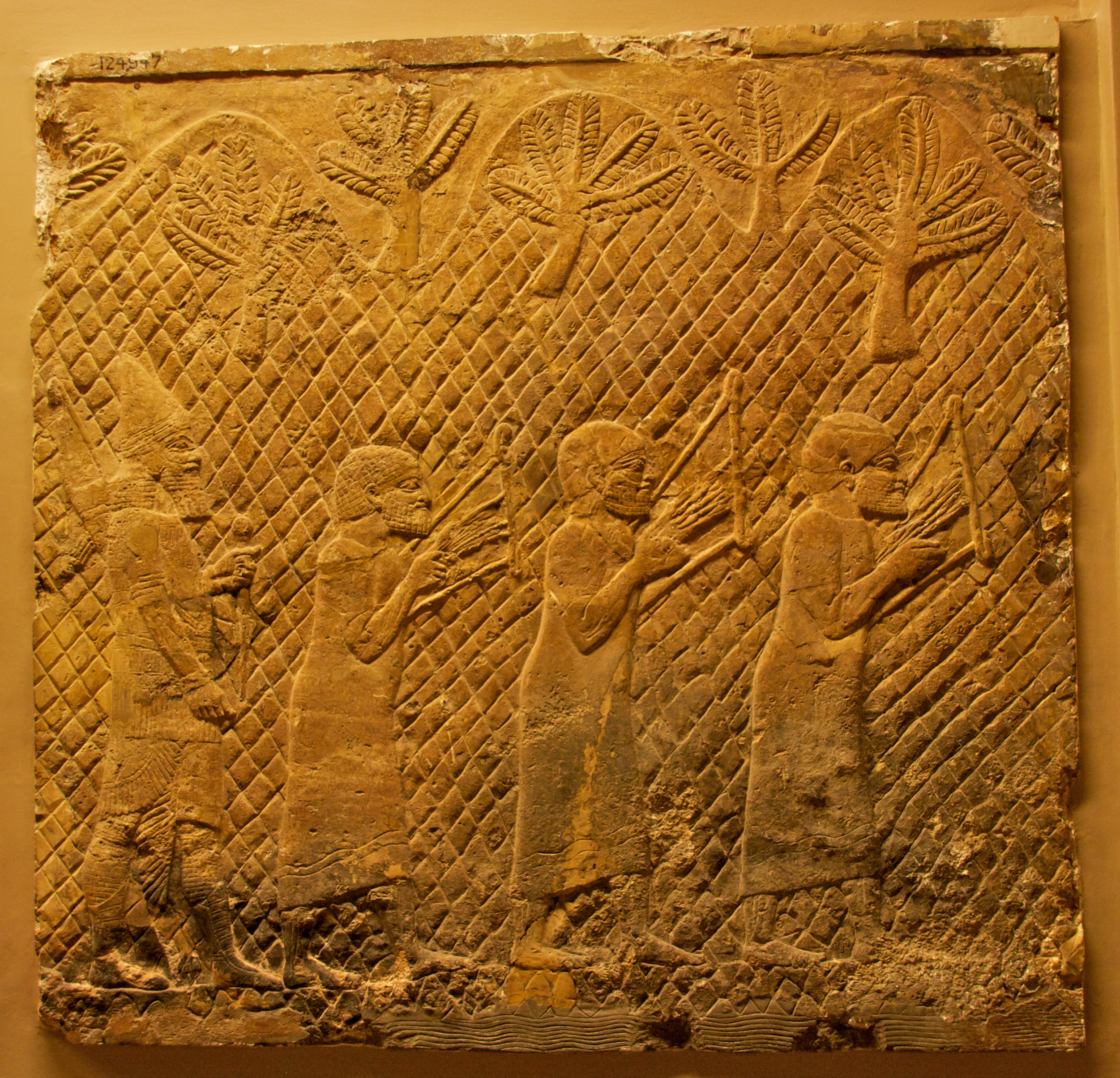 Prisoners playing lyres. Assyrian, about 700-692 BC. From Nineveh, South-West Palace. Three musicians are marched under escort through mountainous country. Their dress indicates that they come from somewhere to the west off Assyria, possibly Phoenicia. The scene recalls the Biblical lament (Psalm 137) referring to a later period: 'they that carried us away captive required of us a song'. WA 124947.